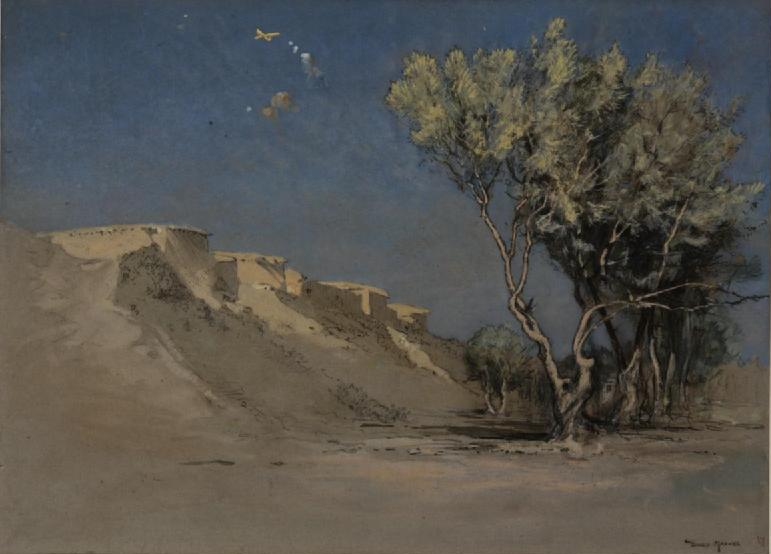 Another Samson at the Gates of Gaza - a seaplane incident- Commander Samson, Rnas at Gaza image: a distant aircraft under anti-aircraft above a landscape of local houses and trees